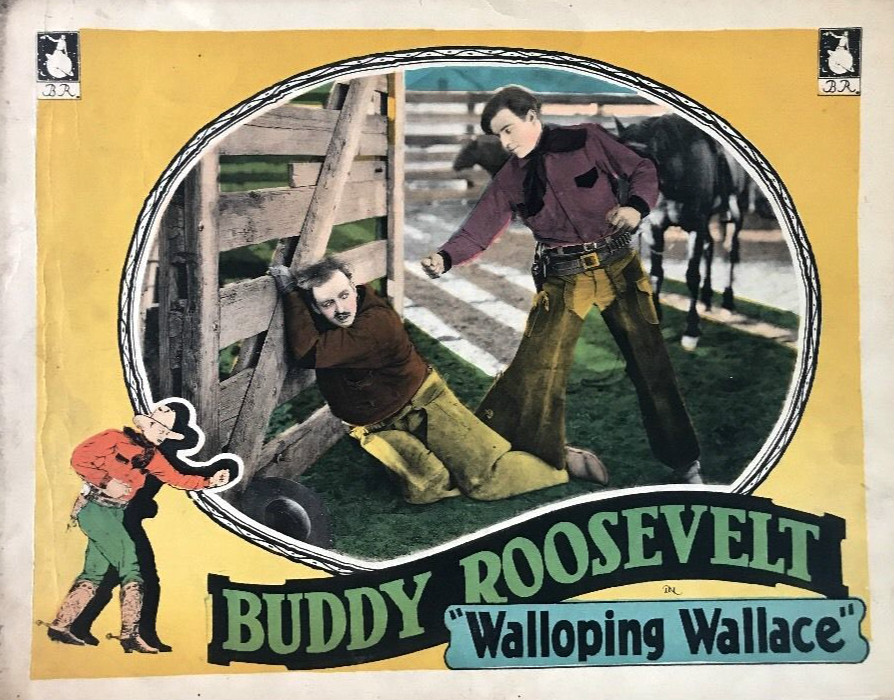 Lobby card for the American western film Walloping Wallace (1924).